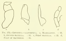 Sketch of maxilliped of E. californica